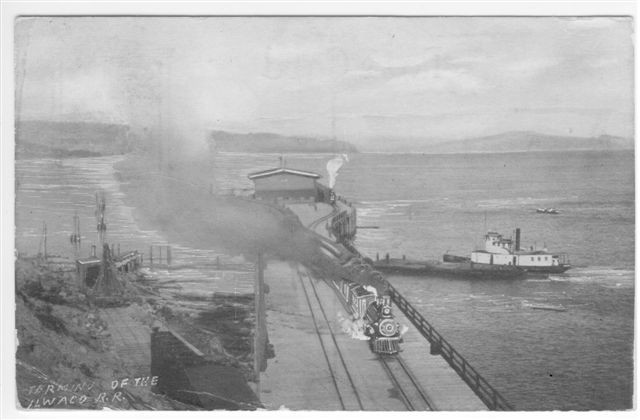 Railway wharf at Megler Washington, before August 14, 1914 (date card was postmarked). Steamer Nahcotta is visible at right alongside a floating dock. Photo on card appears to have been retouched.